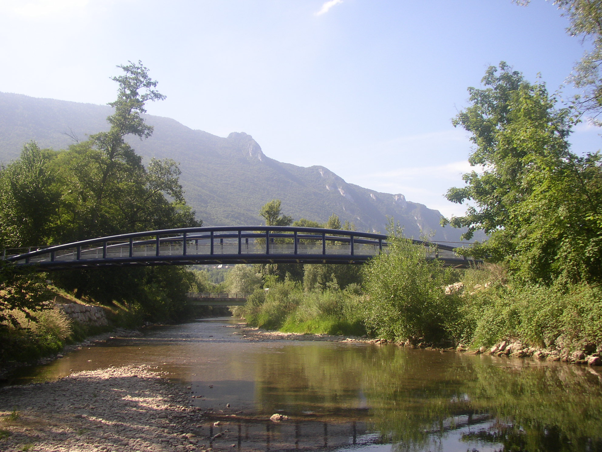 Sight of the Leysse in Le Bourget-du-Lac, less than 500 meters far from the mouth in the lac du Bourget lake, in Savoie, France.